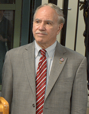 The completion of the work to rehabilitate seven stations along the West End D Line in Brooklyn was marked on August 2, 2012, with a ribbon-cutting ceremony at the Bay Parkway Station attended by MTA leaders and local elected officials. This seven station, $88 million stimulus project funded by the American Recovery and Reinvestment Act (ARRA) of 2009 brought station elements at the elevated stations and segments of the elevated structure south of 62nd Street into a state of good repair. Work included the transformation of the Bay Parkway Station into an ADA key station providing full vertical accessibility for the disabled through the installation of three elevators. Photo: Metropolitan Transportation Authority / Patrick Cashin.